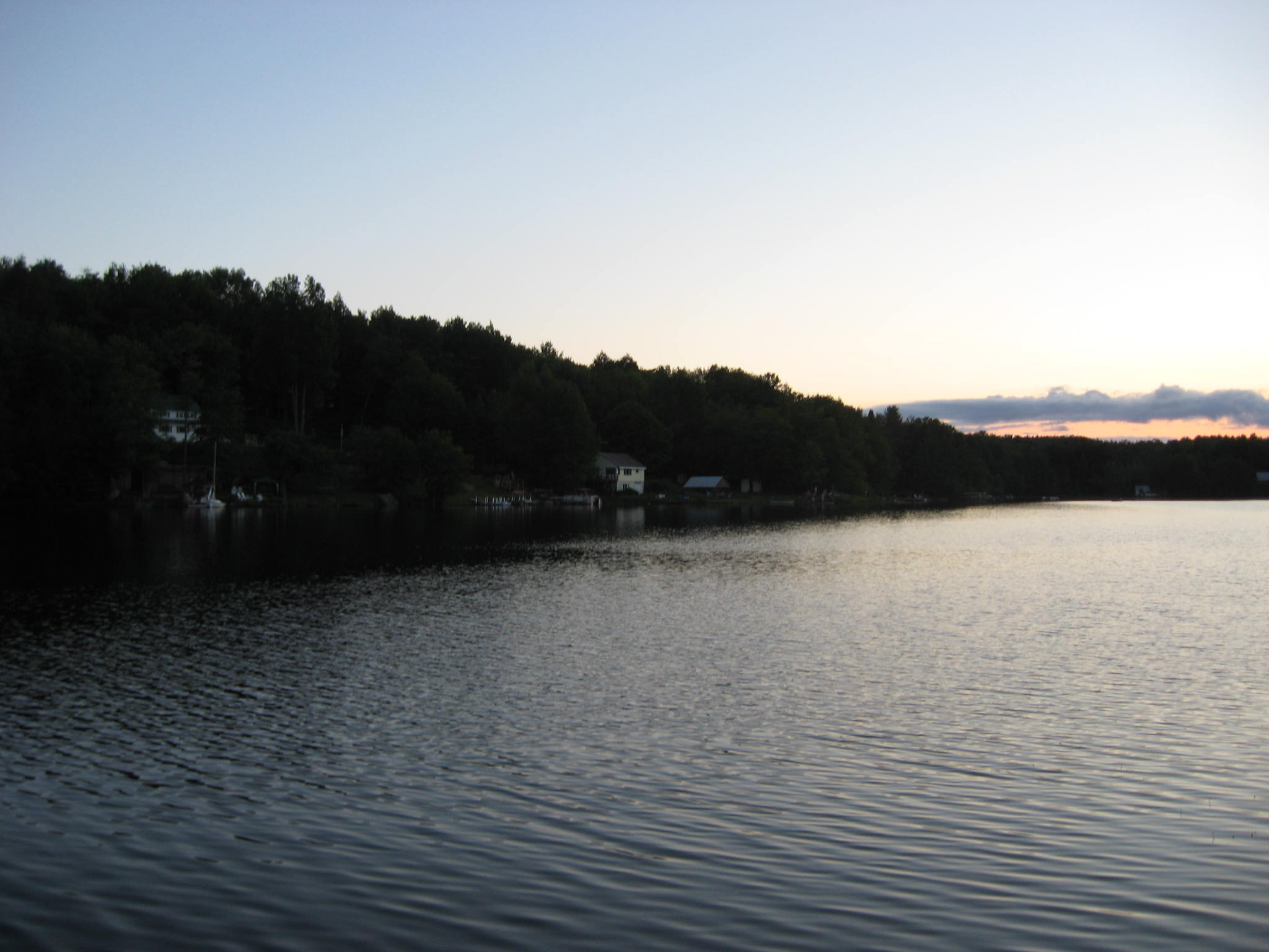 Mountain Lake in the Adirondacks, NY